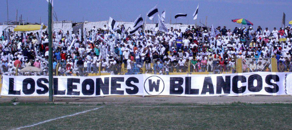 Banner of the Peruvian footbal club Club Deportivo Walter Ormeño.